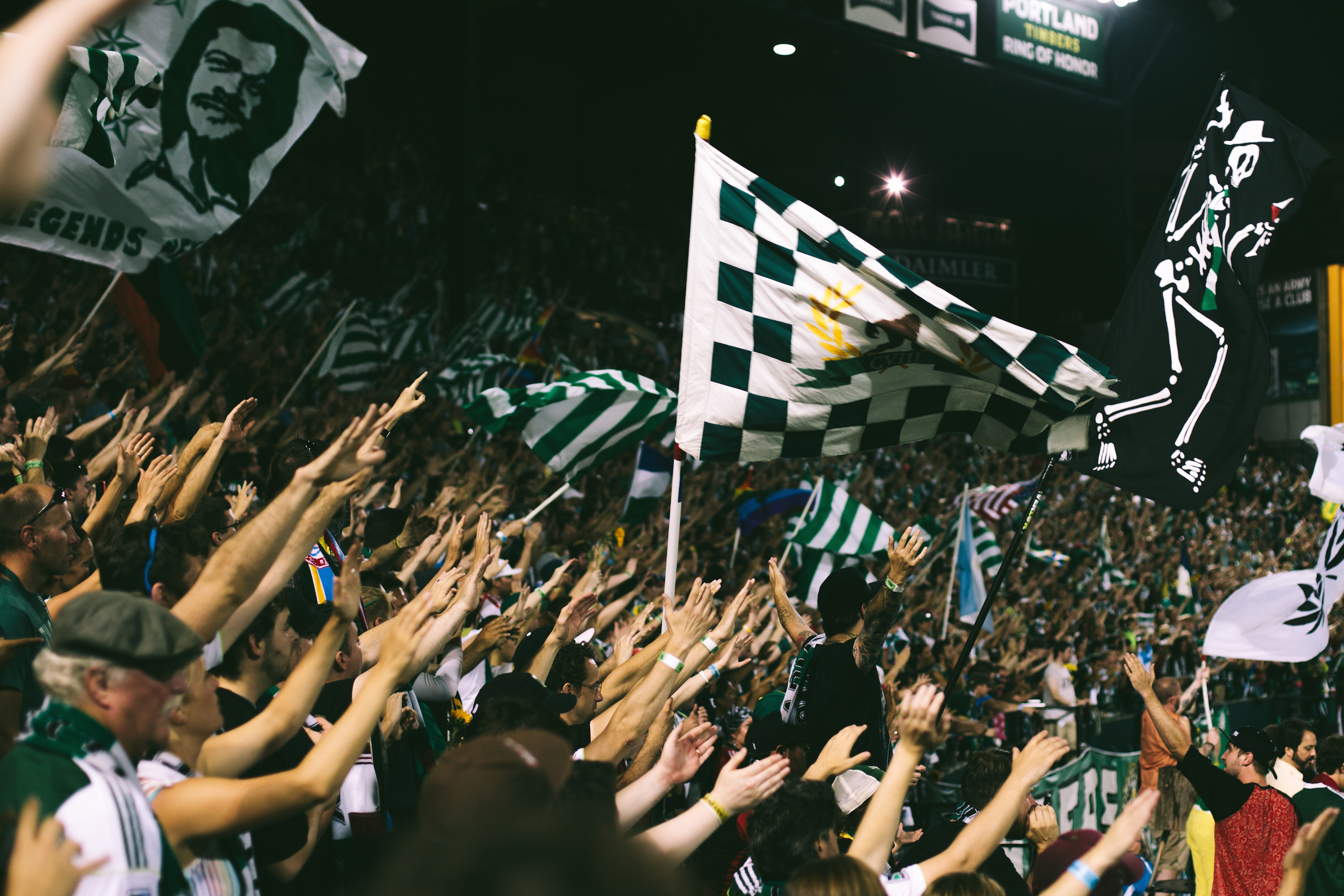 A photograph of Timbers Army during a Portland Timbers-Chivas USA soccer match at Providence Park.